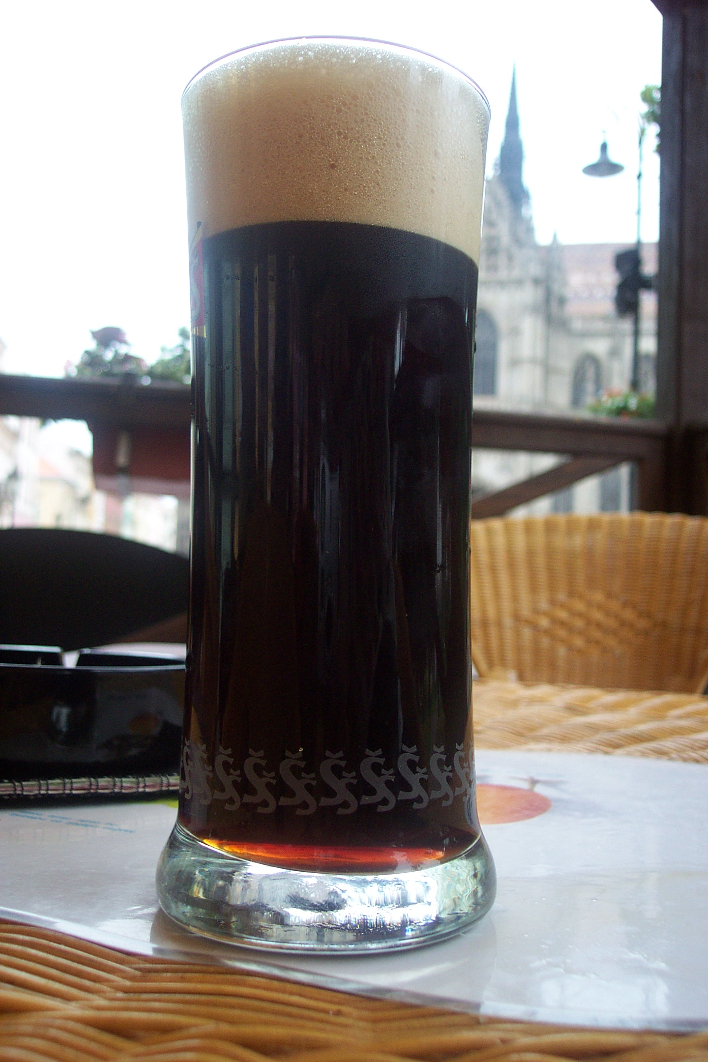 A glass of dark Šariš (Slovakian beer) in the center of Košice. Česky: Půllitr černého Šariše nedaleko chrámu sv. Alžběty v Košicích.